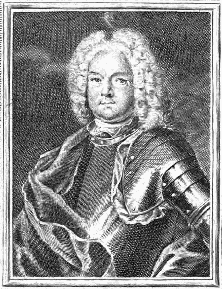 Engraving of Friedrich Wilhelm von Kyaw (1654–1733), saxonian Lieutenant General and Commander of the Königstein Fortress.